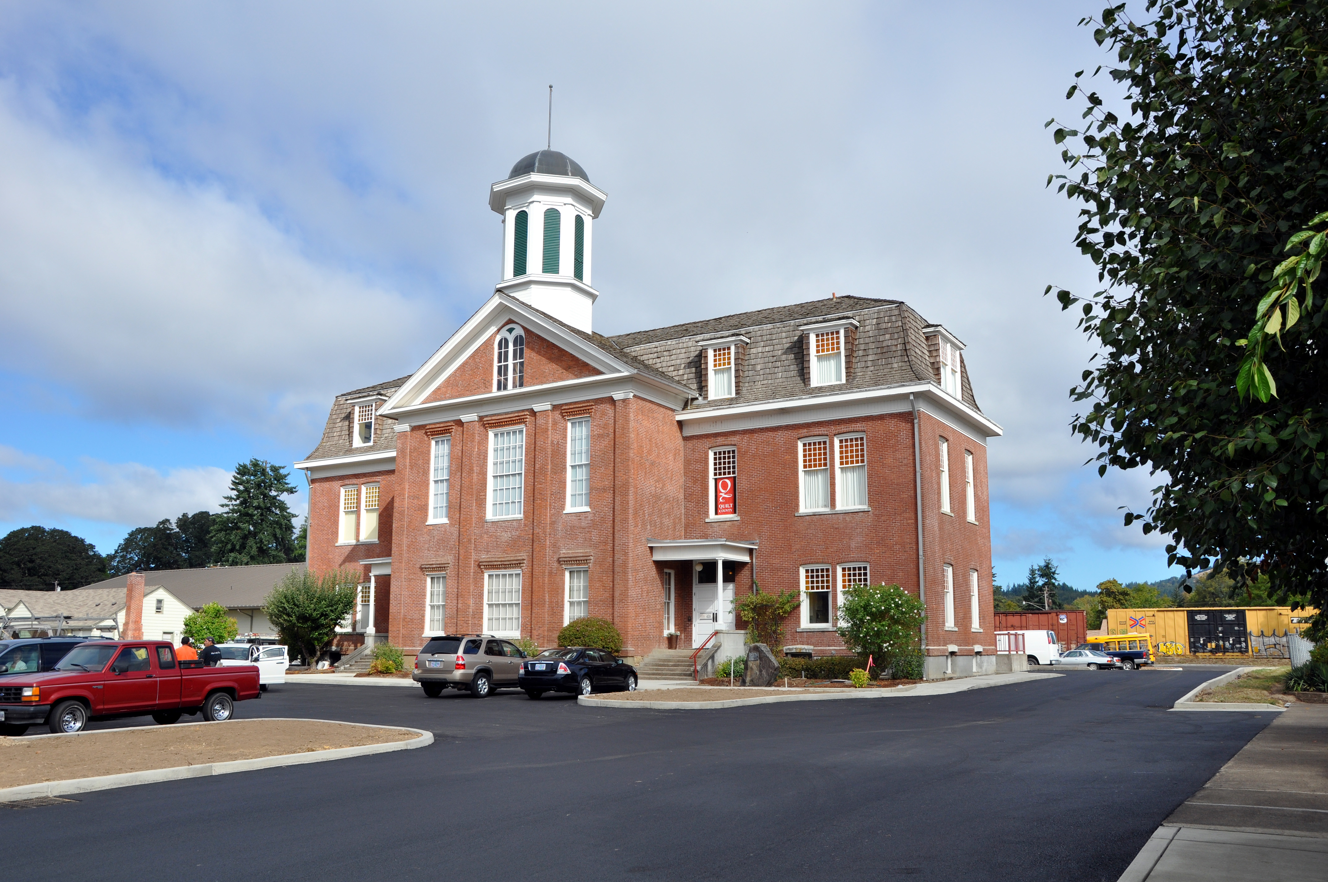 Benton County Historical Museum in Philomath, in the U.S. state of Oregon. View is to the northwest from an adjacent property near U.S. Route 20.